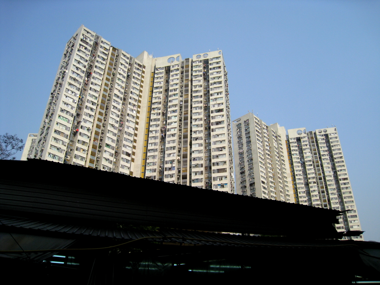 HK PokHongEstate Y2 Building